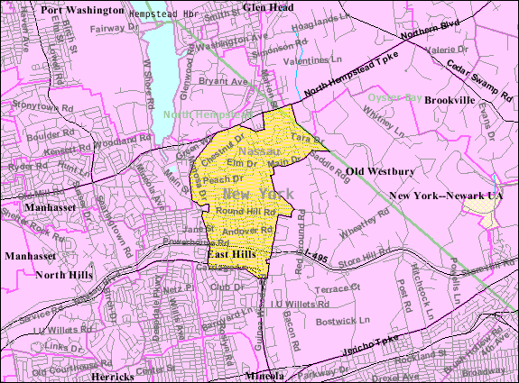 U.S. Census 2000 reference map for East Hills, New York